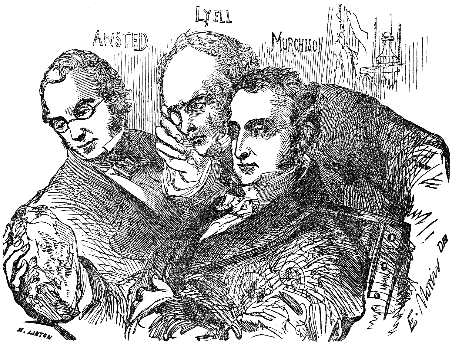 Ansted, Layell, Murchison